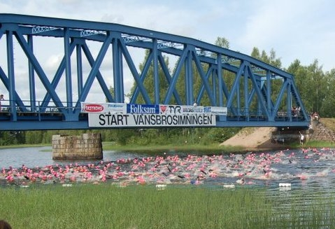 Swimmers just after start in Vansbrosimningen 2010.